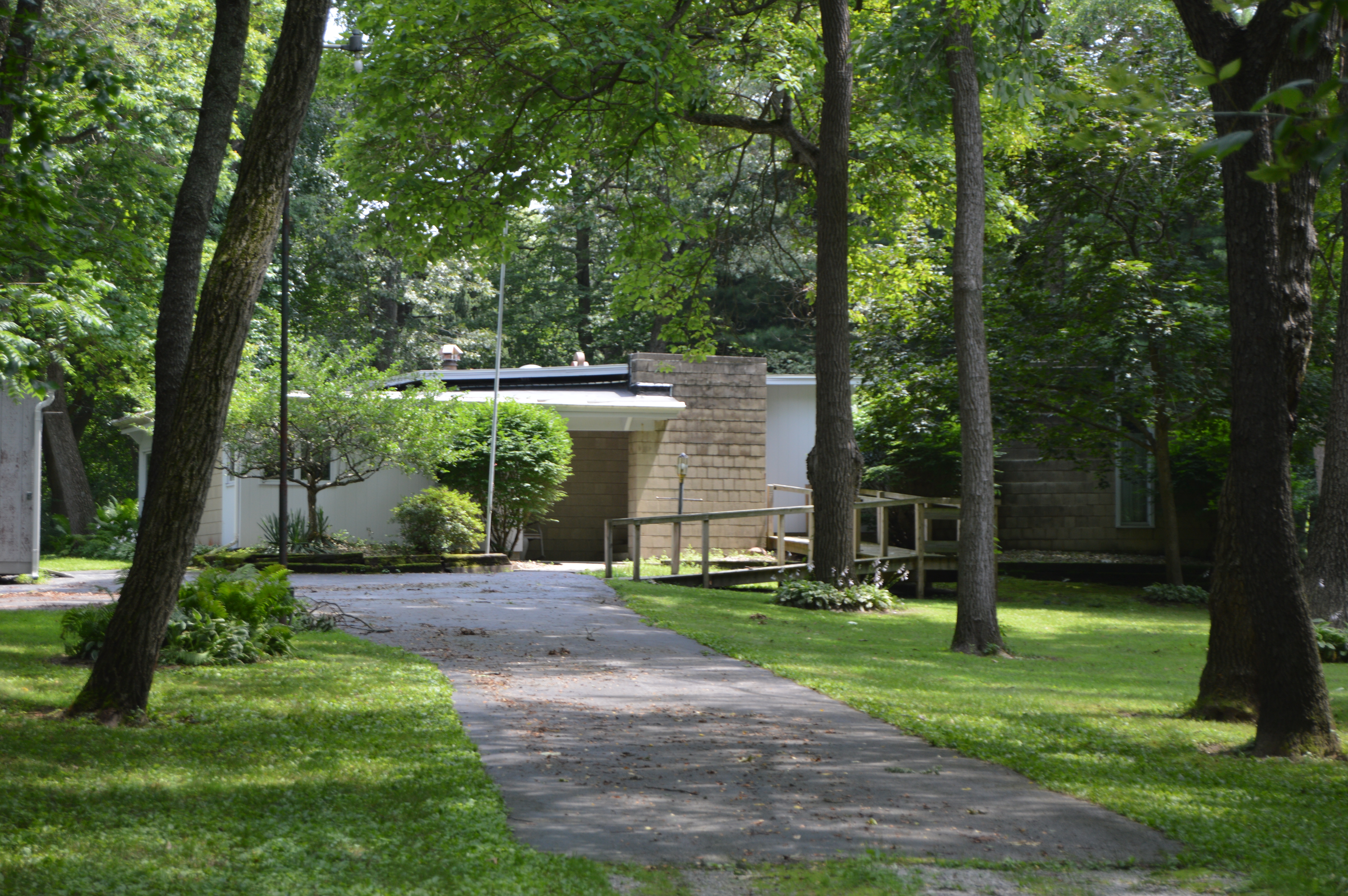 Driveway view of the Hugh and Leona Rank House, located at 975 Winding Road just south of Rensselaer in Marion Township, Jasper County, Indiana, United States. Built in 1964, it is listed on the National Register of Historic Places.